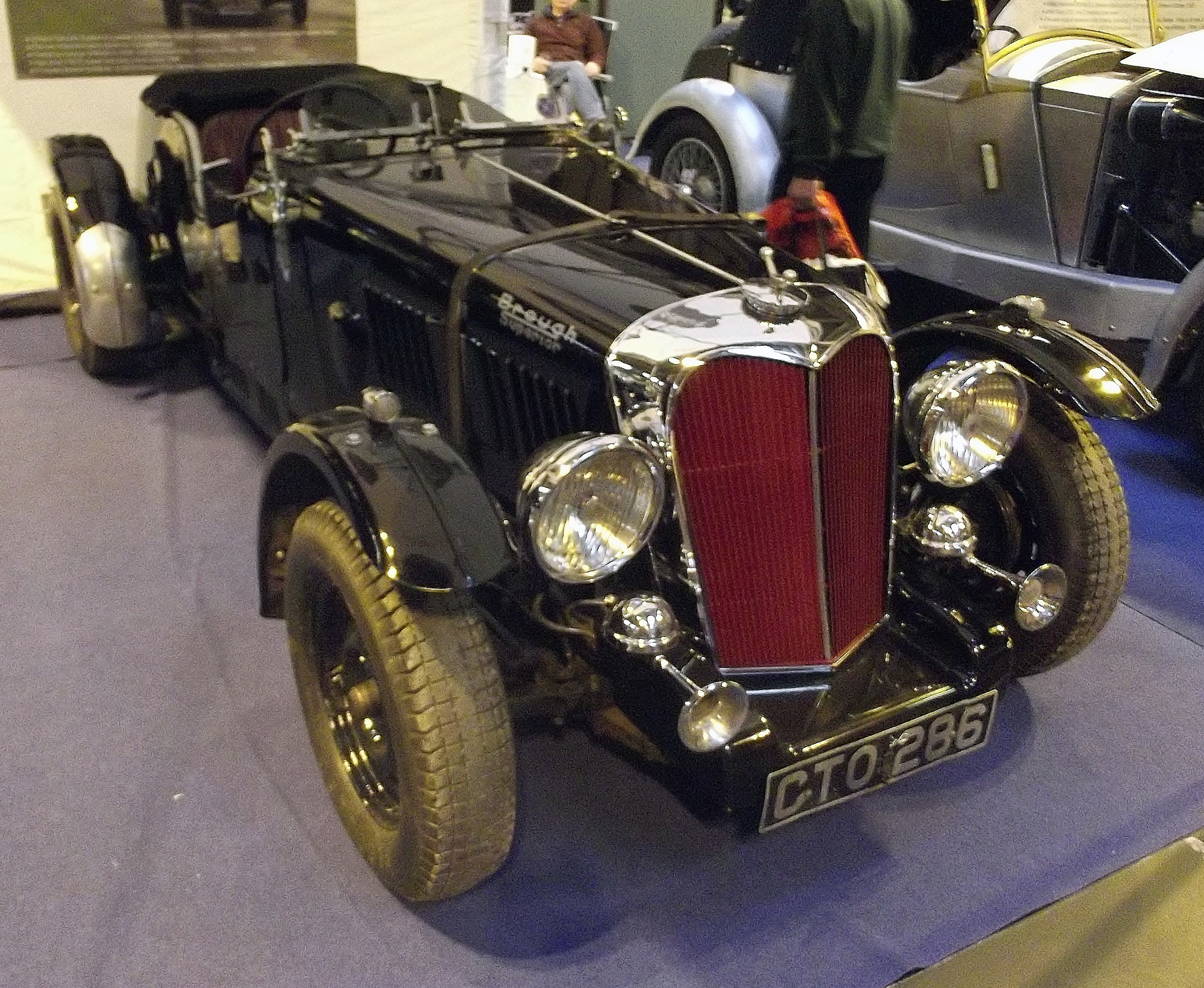 1936 Brough Superior Alpine Grand Sports, 3455cc. The wheels look peculiar.